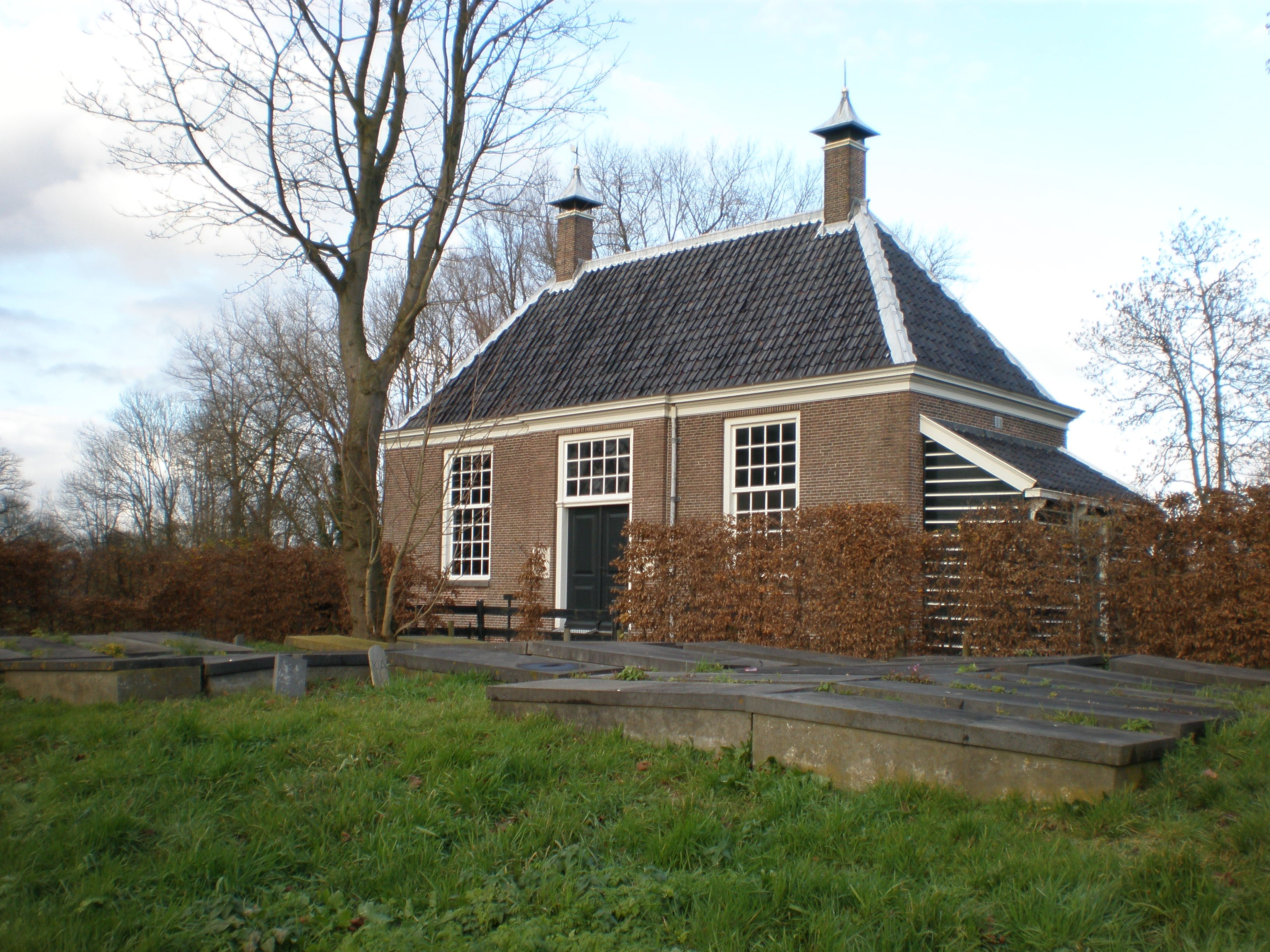 Morgue of the Jewish cemetery Beth Haim in Ouderkerk aan de Amstel.